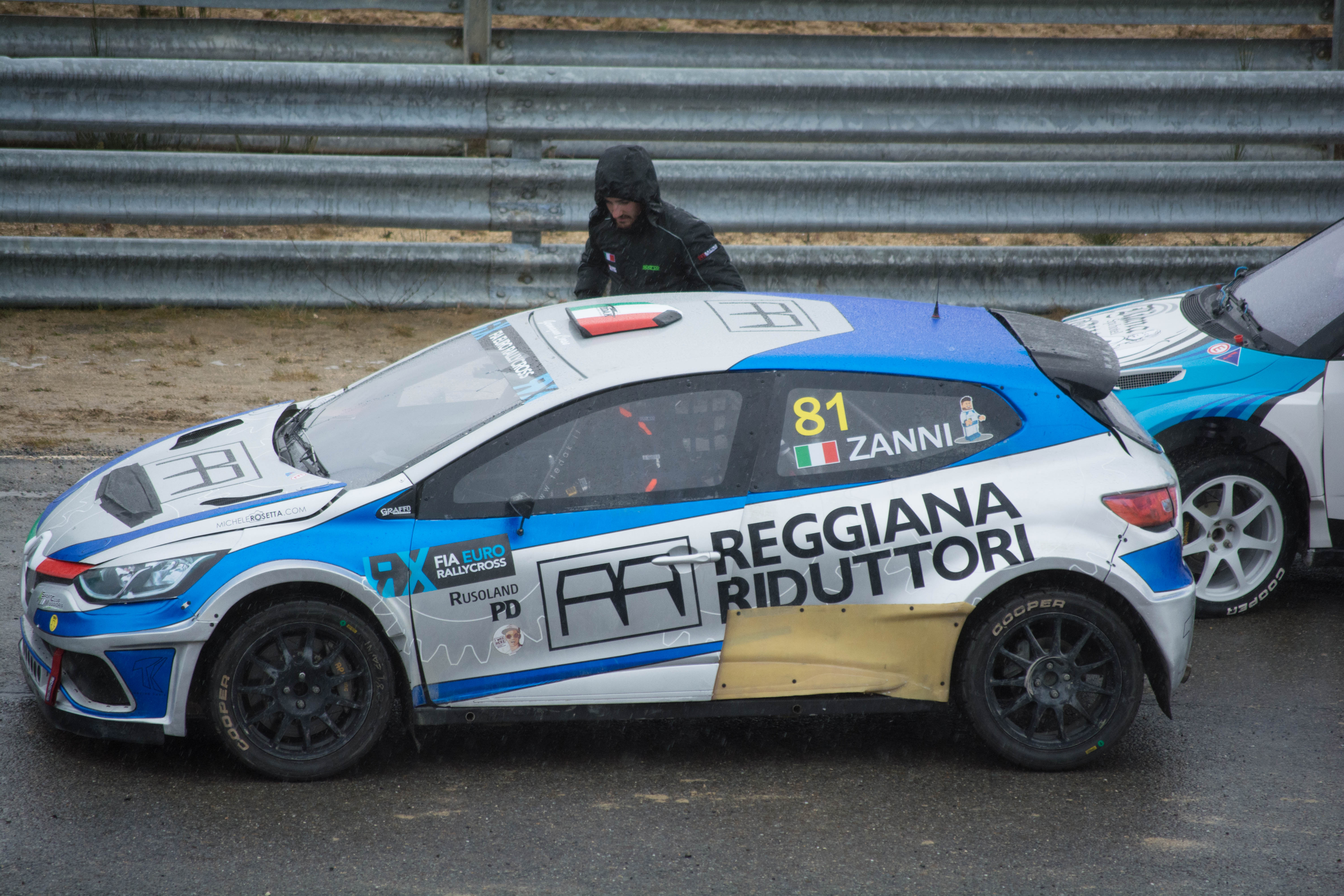 Portugal Montalegre 2016